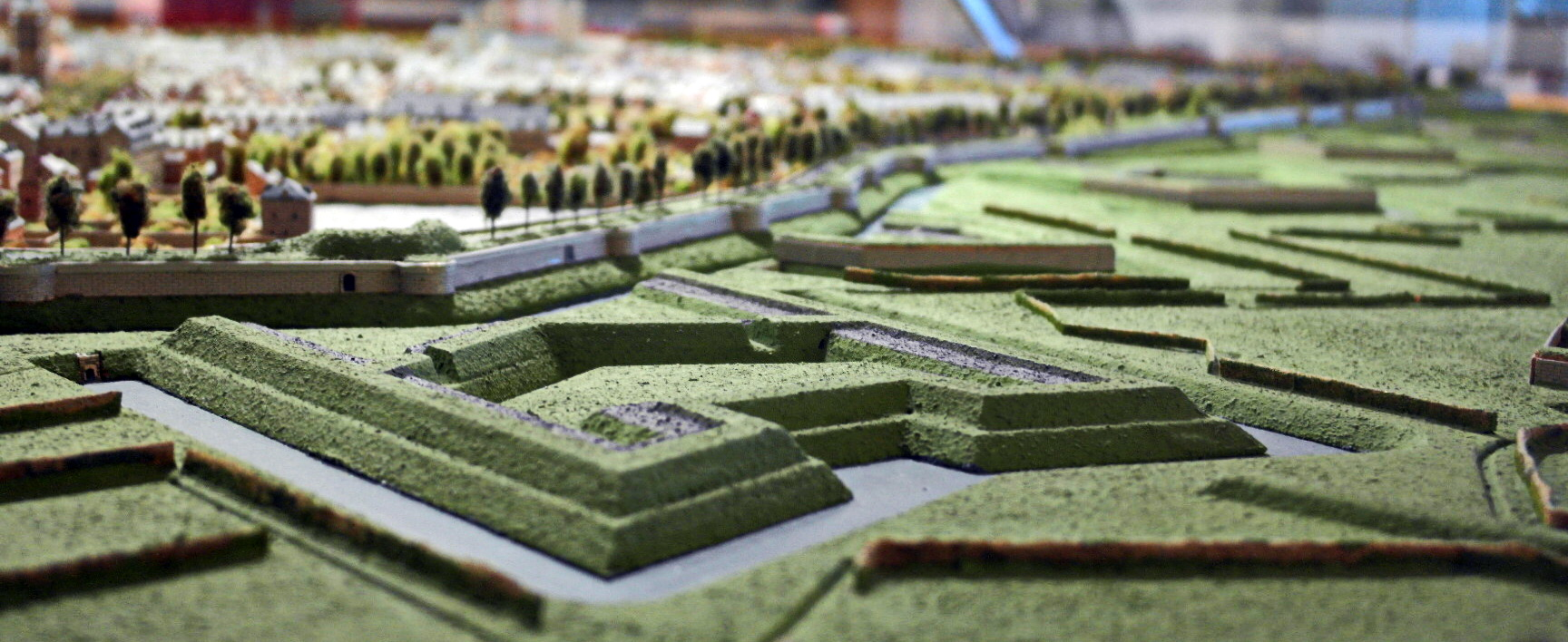 Detail of the copy of the French Maquette of Maastricht on display in Centre Céramique, Maastricht, the Netherlands. The copy was made in 1974-1982, based on the mid-18th-century scale model made for King Louis XV of France. This section shows the northwestern city wall and the so-called Bosch Hornwork.